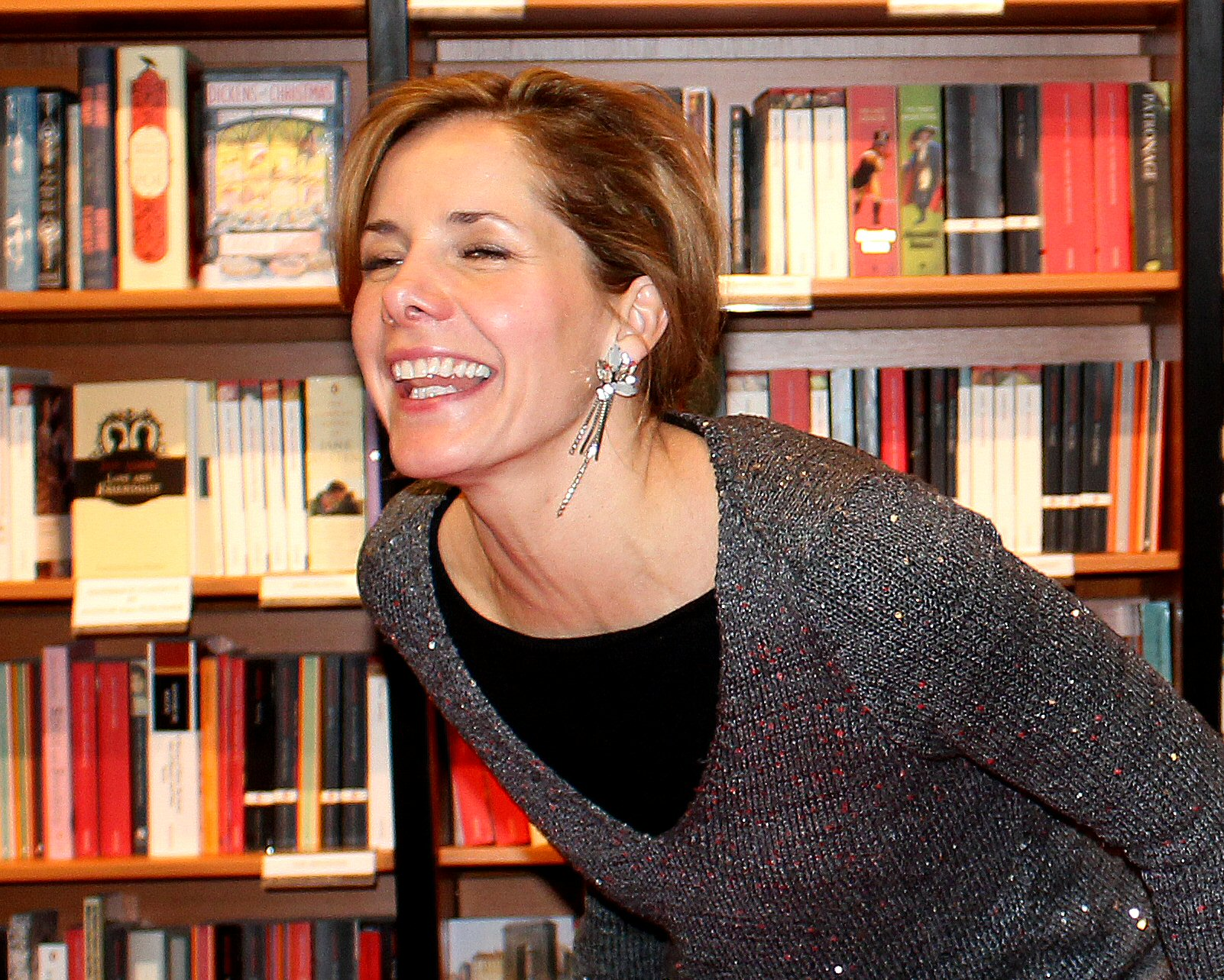 Darcey Bussell. Chelsea, London December 2012